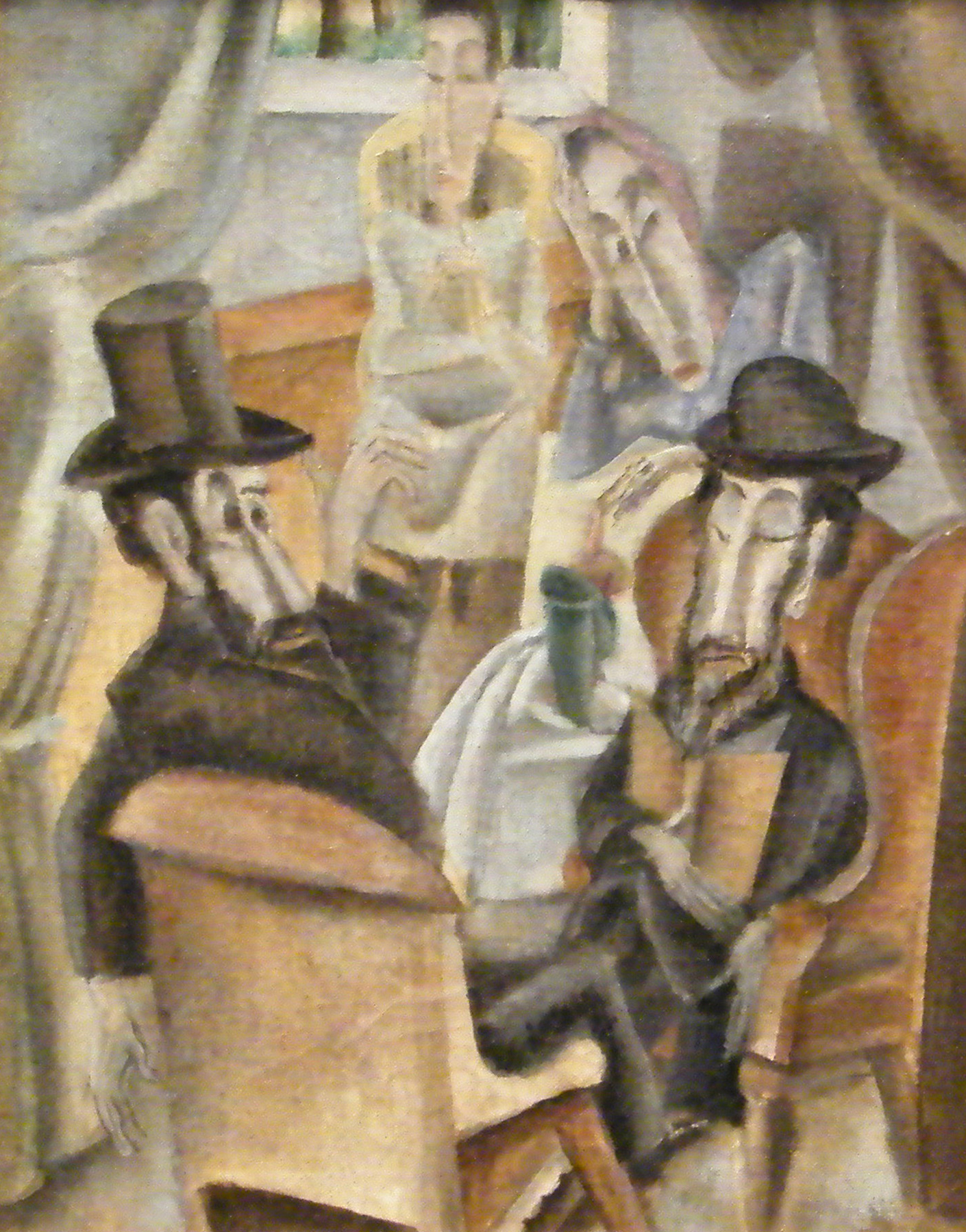 Max Weber, American, b. Russia, 1881-1961 Sabbath, 1919 Oil on canvas 12 1/2 x 10 in. (31.8 x 25.4 cm) The Jewish Museum, New York Gift of Joy S. Weber, 2005-51 Wikipedia Loves Art at the Jewish Museum (New York City) This photo of item # 2005-51 at the Jewish Museum (New York City) was contributed under the team name "The_Grotto" as part of the Wikipedia Loves Art project in February 2009. Jewish Museum (New York City) The original photograph on Flickr was taken by cjn212—please add a comment to the original Flickr page whenever a use has been made on Wikipedia or another project. Project galleries on Flickr: this institution, this team